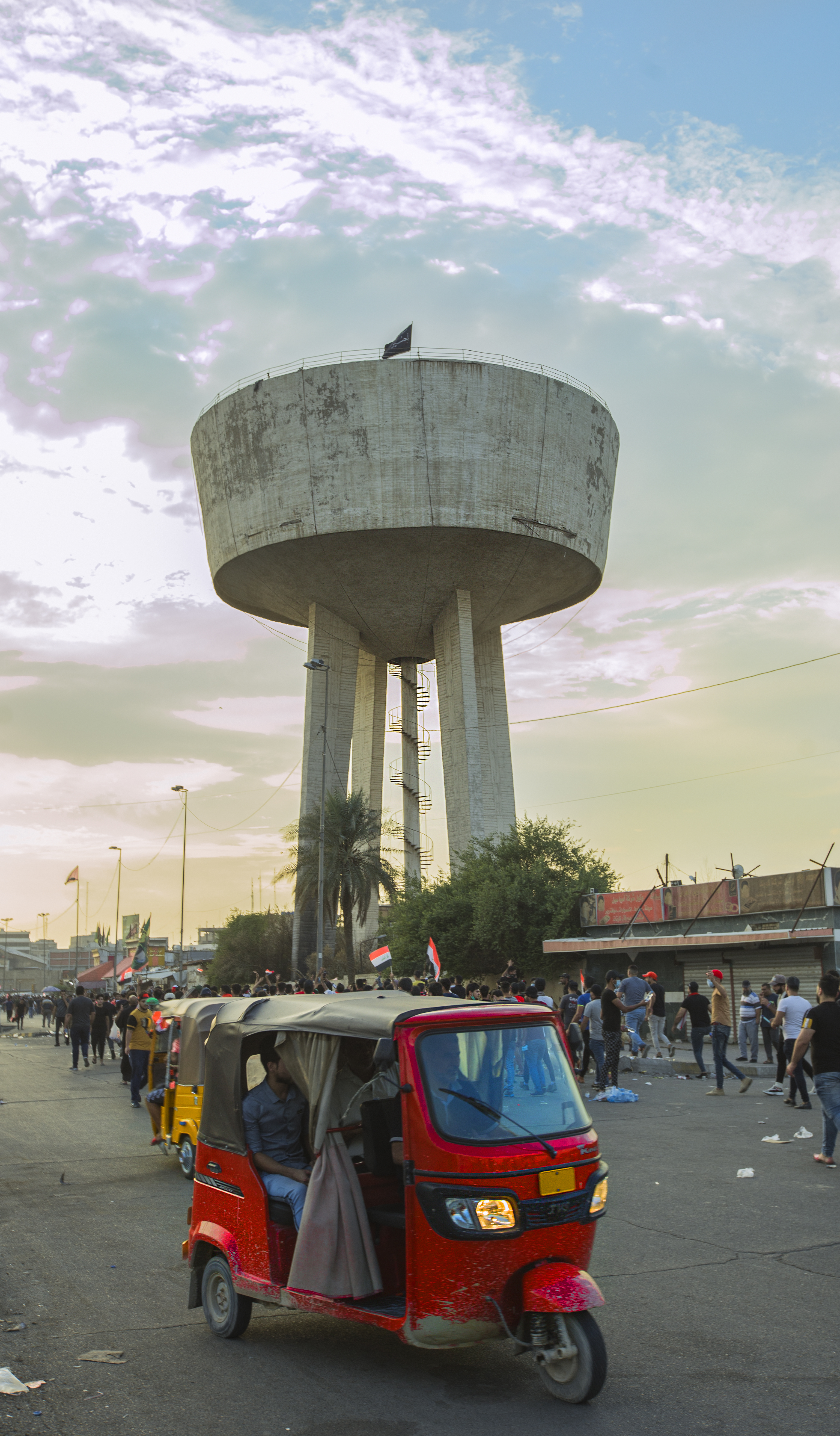 Tok-Tok and its pioneering and important role in the success of the revolution between transporting demonstrators and providing them with support for food, medicine and blankets - Photo by Mustafa Nader